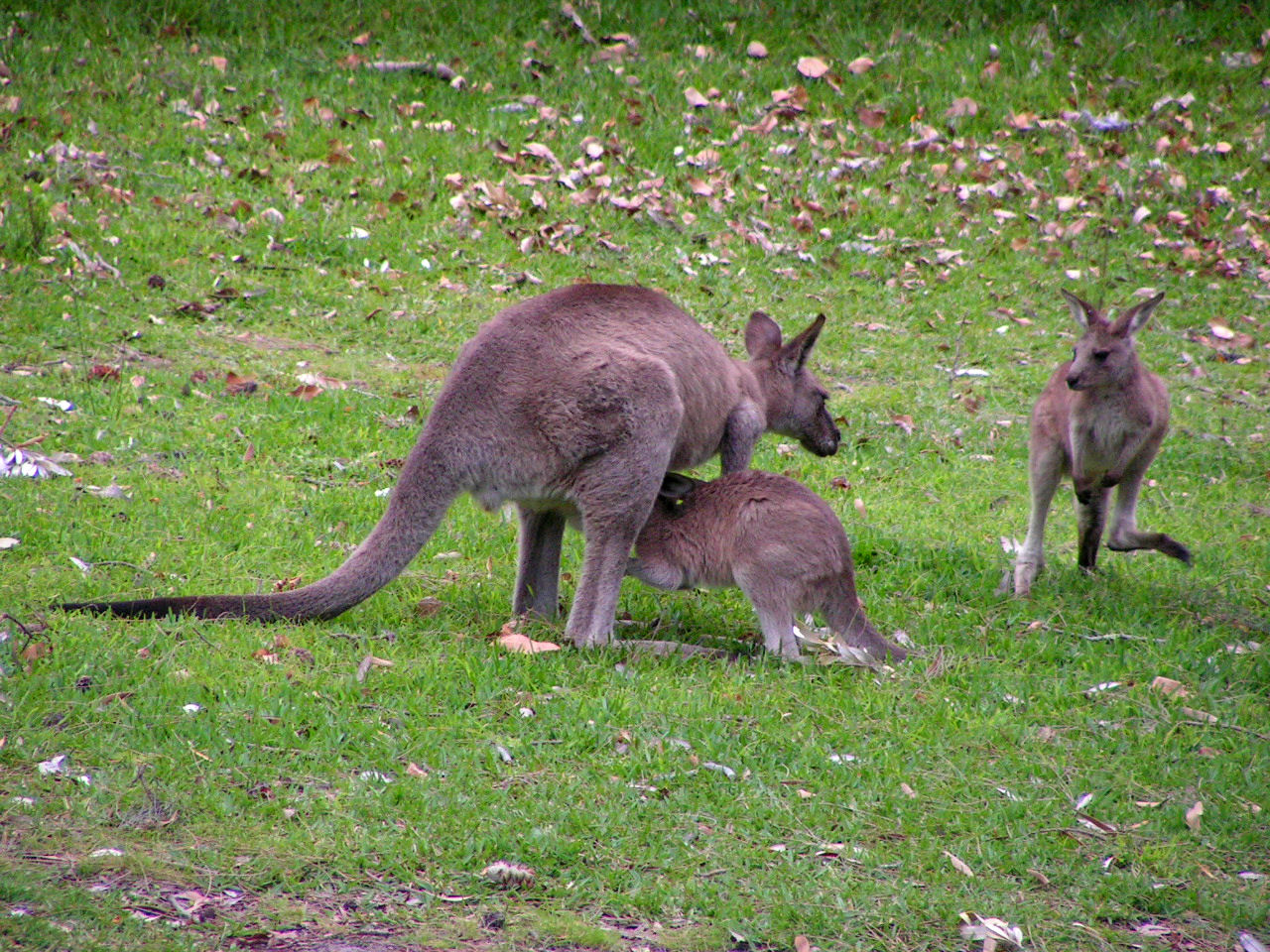 Eastern Grey Kangaroo (Macropus giganteus), Nowra, New South Wales